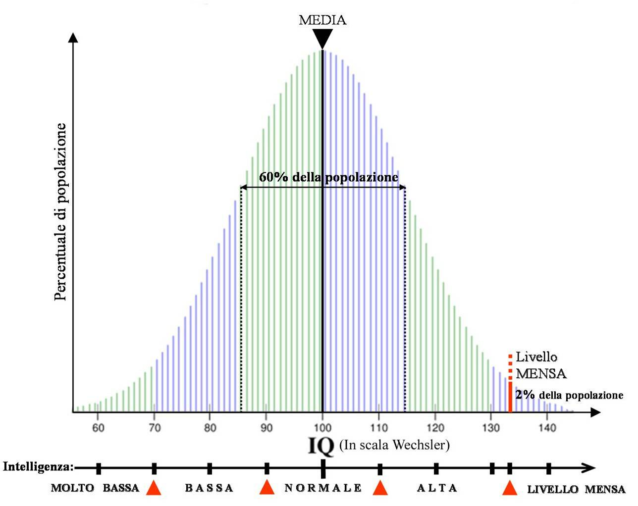 normal distribution of intelligence